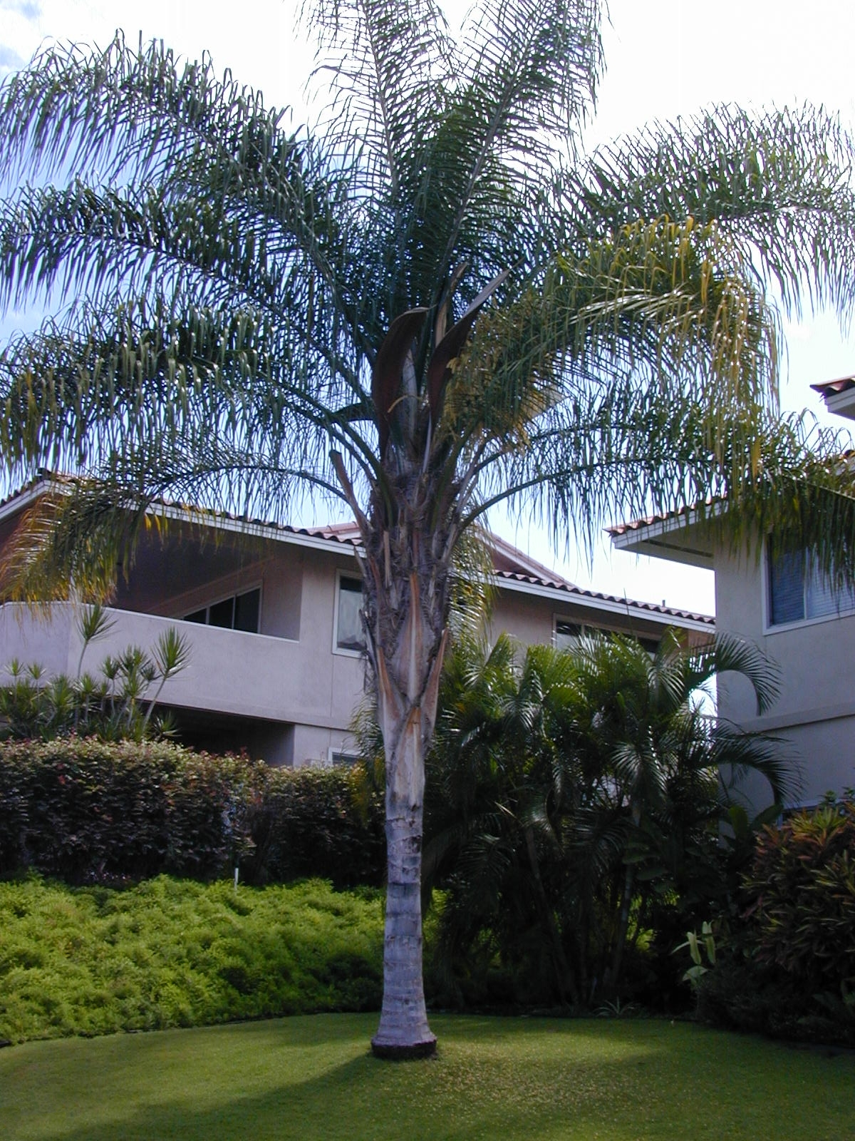 Syagrus romanzoffiana (habit). Location: Maui, Kihei